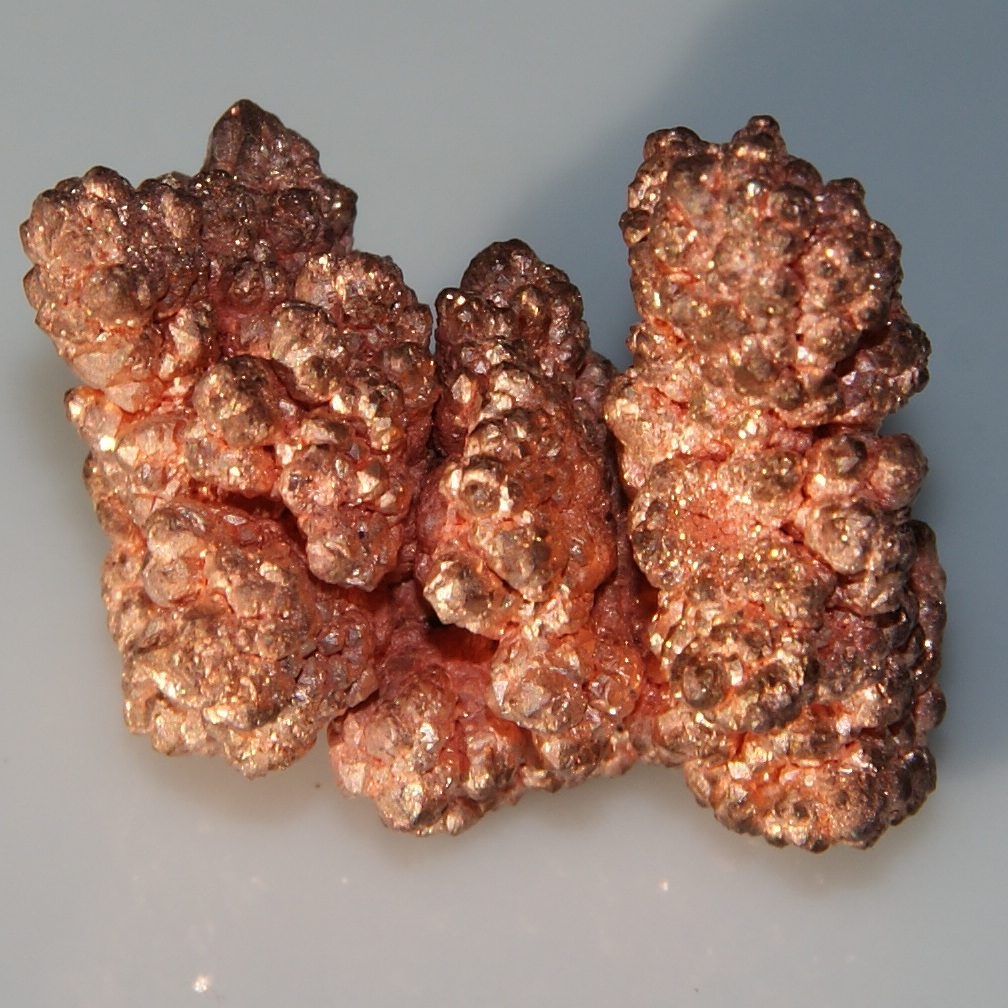 Copper is an abundant and quite inert metal with a golden-red color, which is useful for a lot of different things. It is known since ancient times and was the first metal used by humans. Together with tin, it is main ingredient of bronze. In an alloy together with zinc, it forms brass. Copper has a very high electrical conductivity, so it is used for most electrical lines (copper wire). Sometimes copper nuggets like this can be found, but most copper is won from ore. Copper also is a necessary trace element for most multicellular organisms.